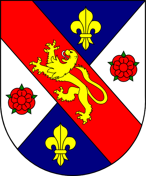 Coat of arms (shield only) of György Szatmári (Szathmári), bishop of Veszprém, Hungary (1499 - 1501), bishop of Oradea Mare, Romania (1501 - 1505), bishop of Pécs, Hungary (1505 - 1521), archbishop of Esztergom (1521 - 1524). Tinctures based on colored Hoefnagel's engraving of Esztergom (although they exist different versions of coloration). Much different tinctures see in Siebmacher: Ungarn, p. 612, Tab. 432.